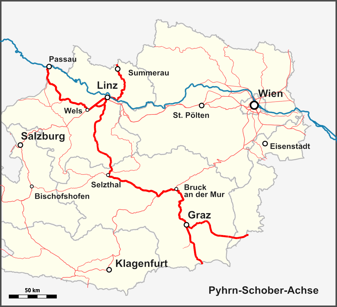 Map of the Pyhrn-Schober-Achse